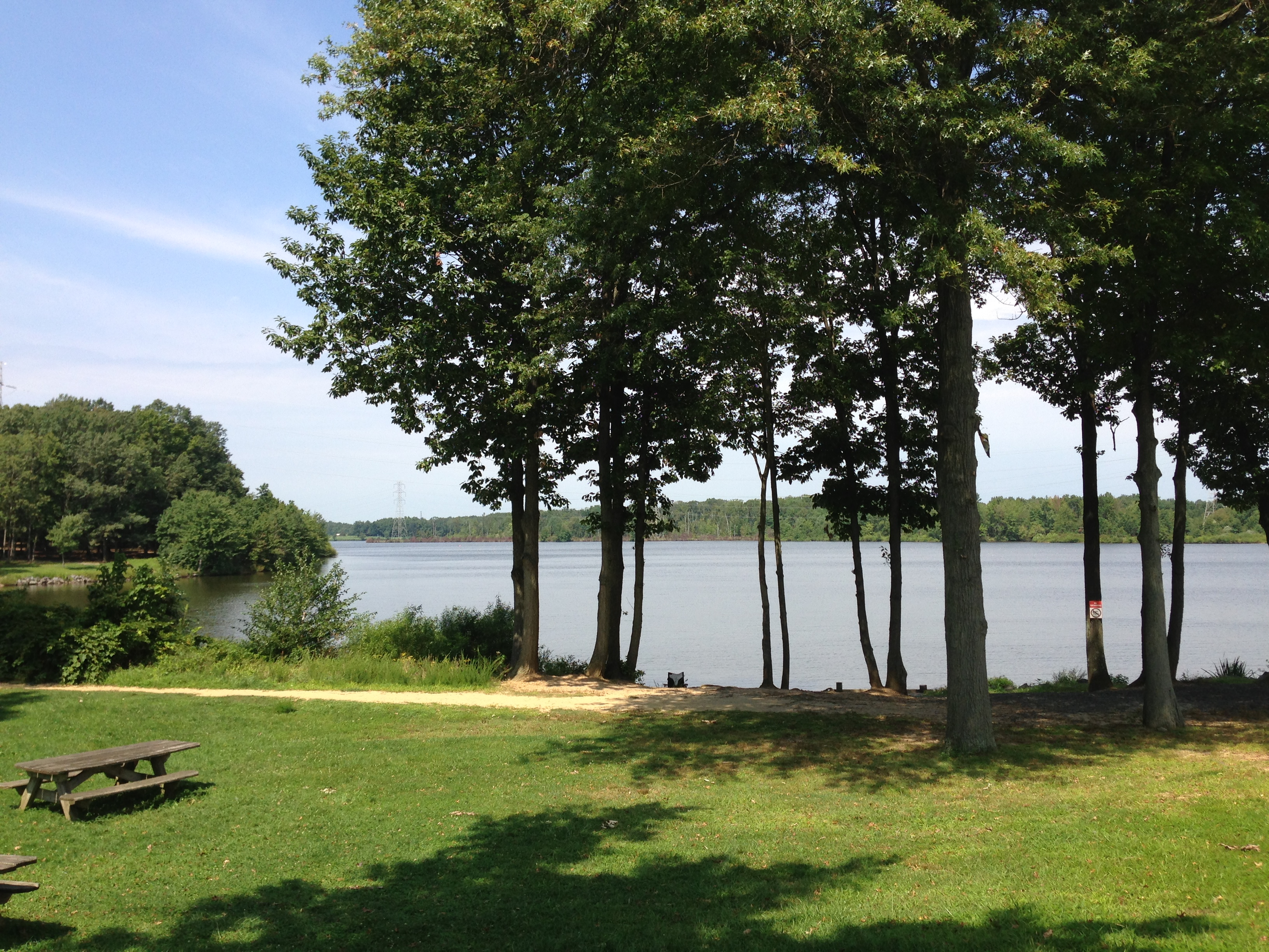 View from a picnic area through some trees toward Mercer Lake near the marina in Mercer County Park on August 26th 2013